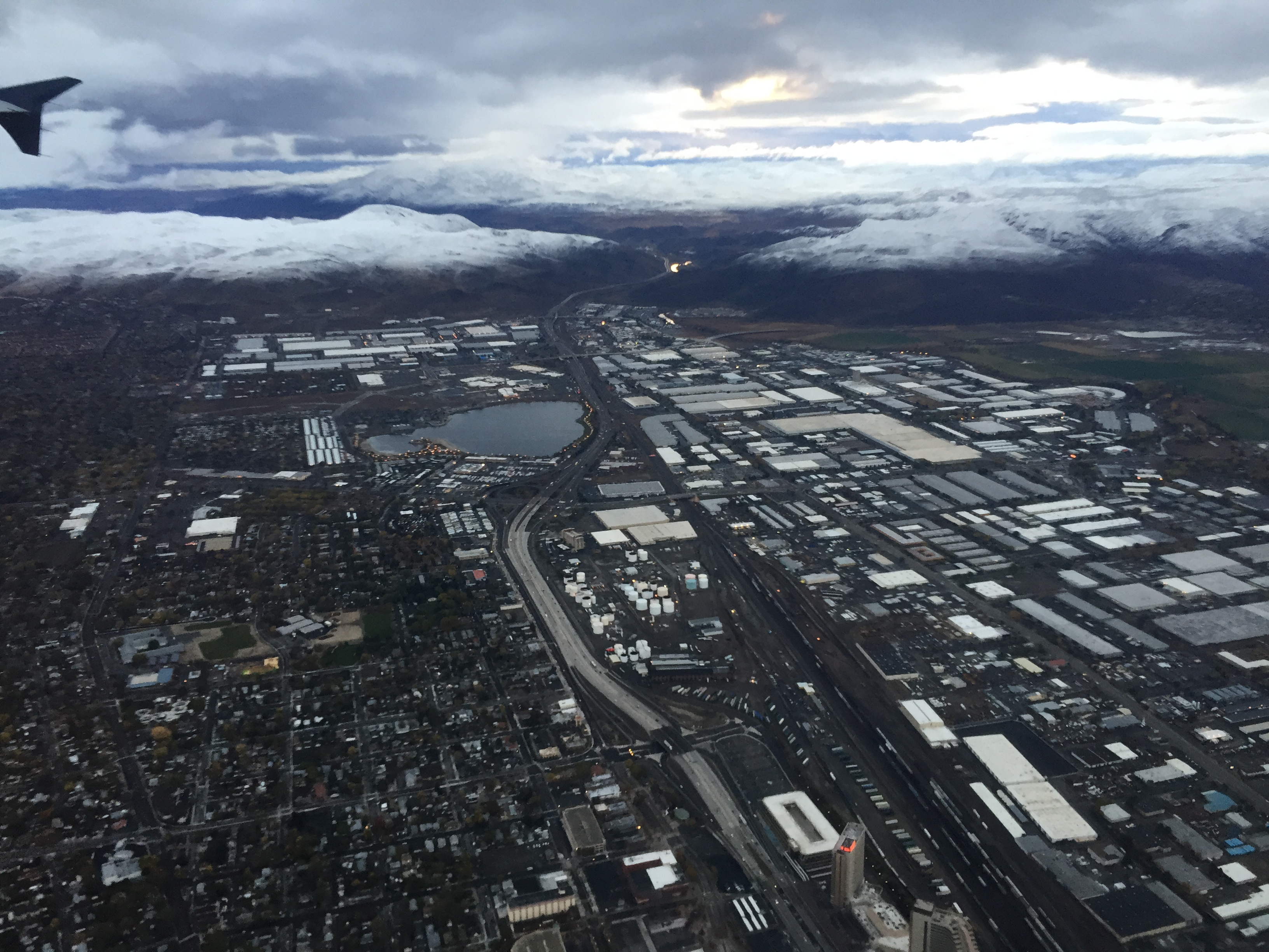 View east towards Interstate 80 and the city of Sparks, Nevada from an airplane taking off from Reno–Tahoe International Airport